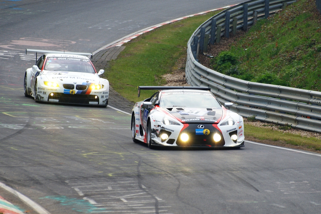 BMW M3 E92 behind nr. 50 Lexus LF-A by Gazoo Racing, Japan